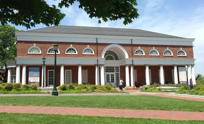 Color photograph of the Albert and Shirley Small Special Collections Library, University of Virginia